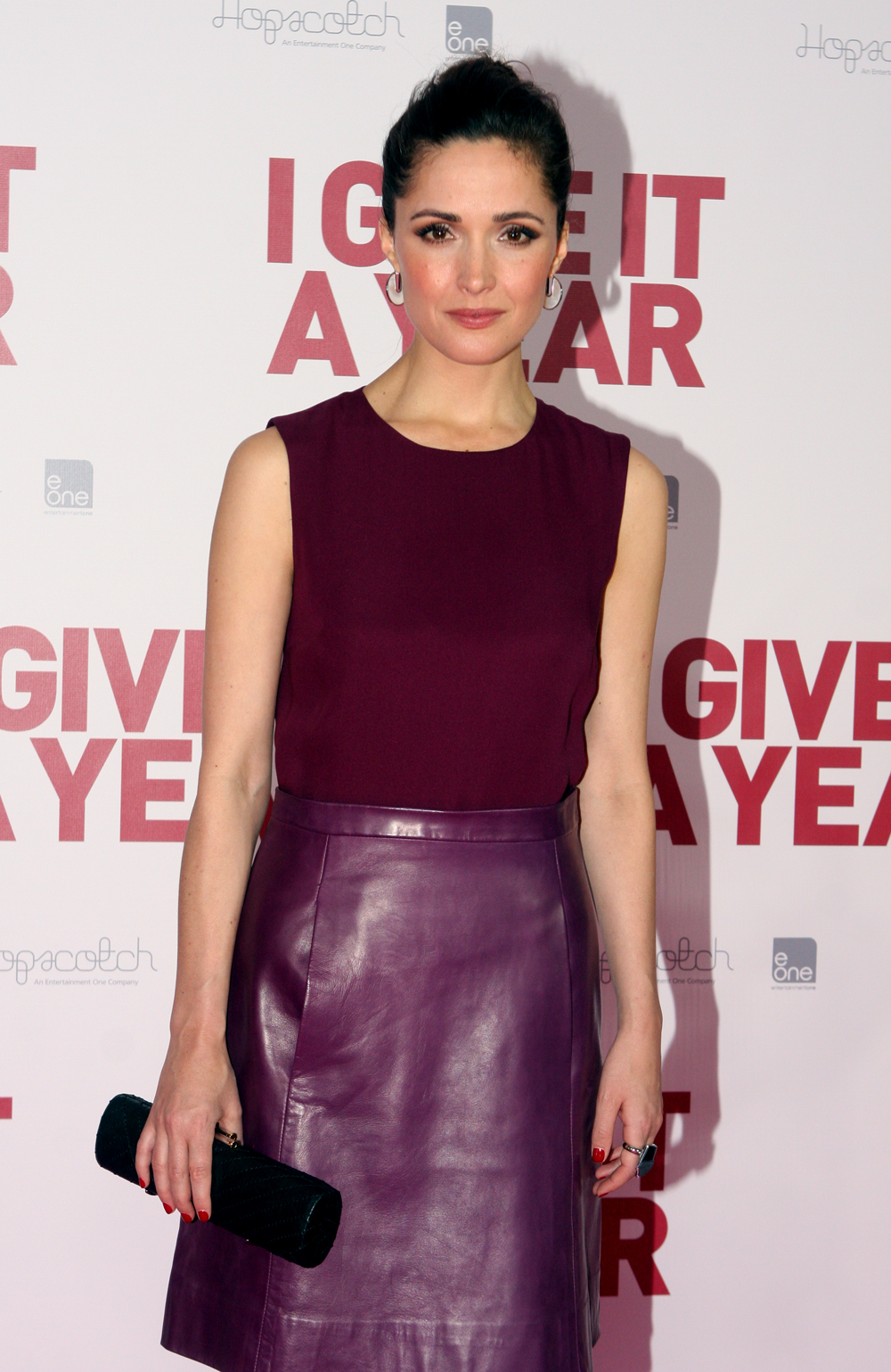 Rose Byrne